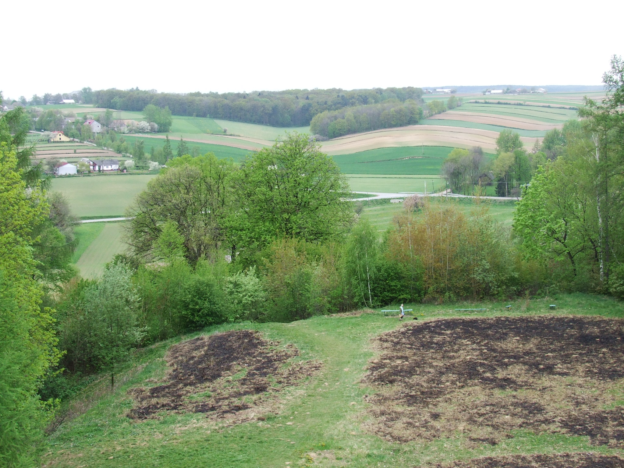 Janowiczki: view from Kościuszko Mound